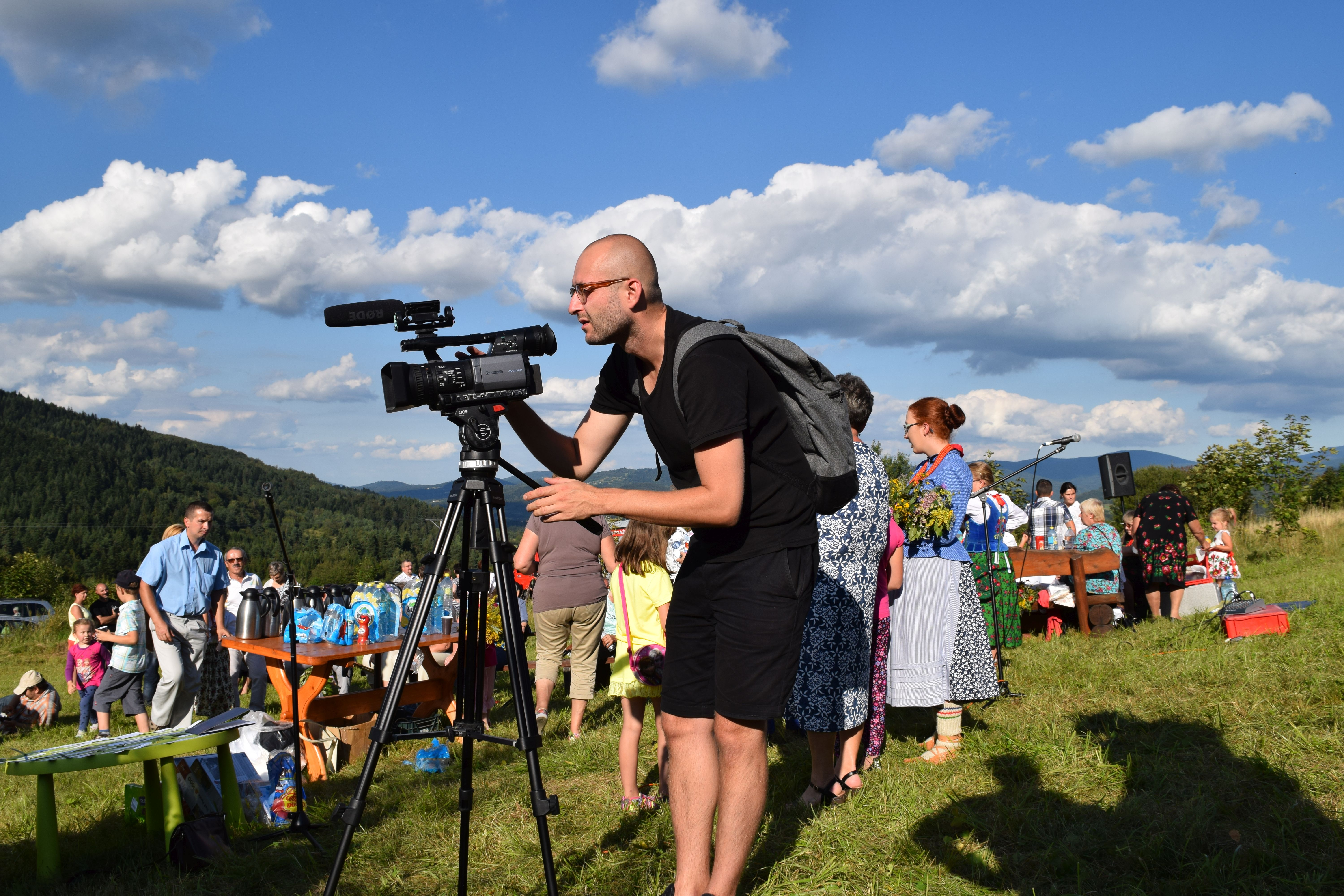 Ethnographer filming celebrations accompanying the Assumption of the Holy Mary in Juszczyna, Żywiec Beskids, Poland, 2016